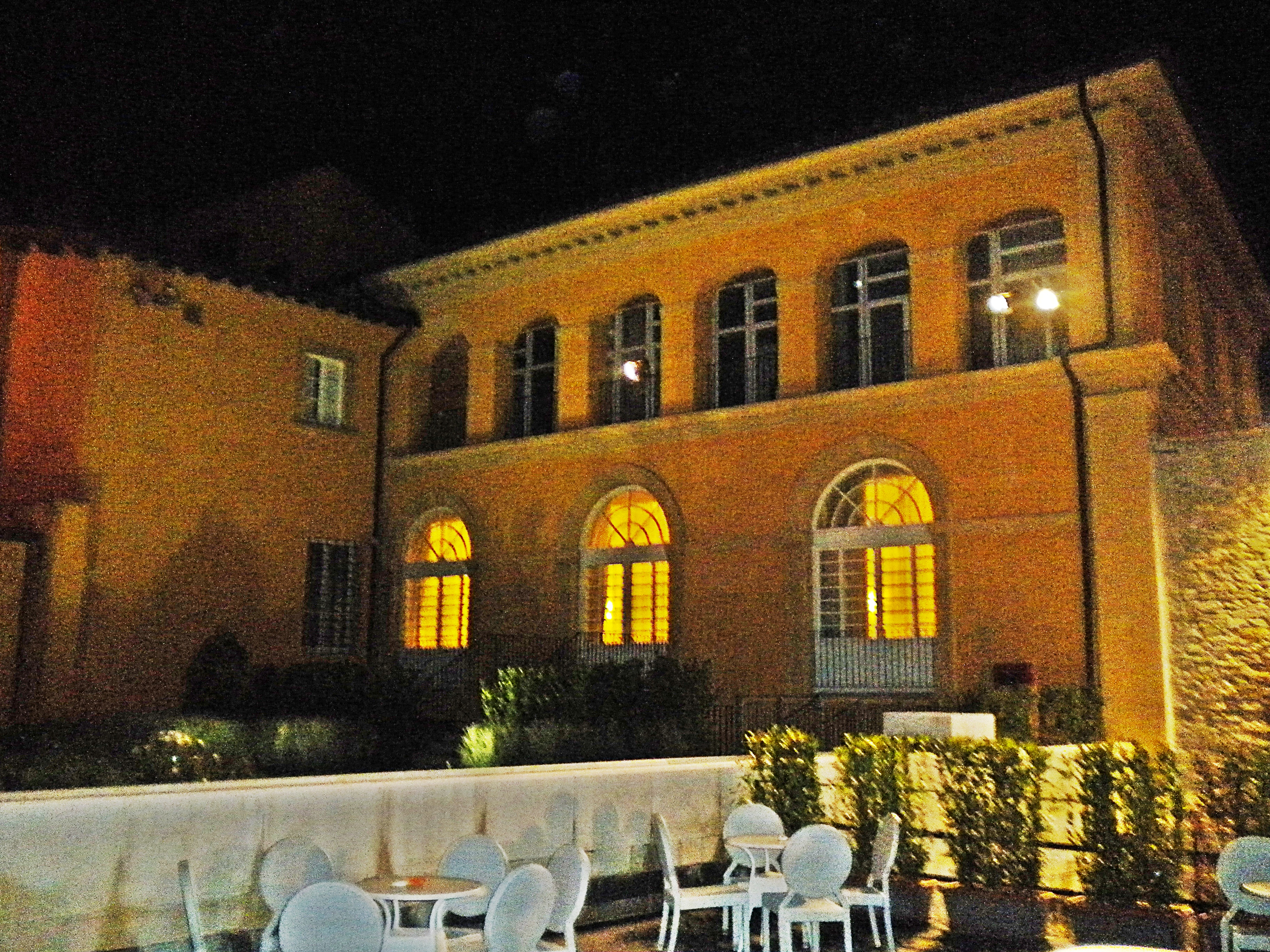 night view